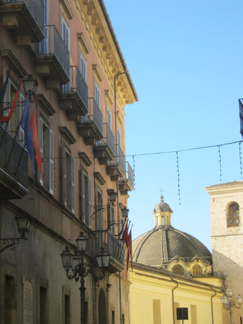 The main street of Alvito, Italy, with "Palazzo Sipari" and the church of San Simeone.